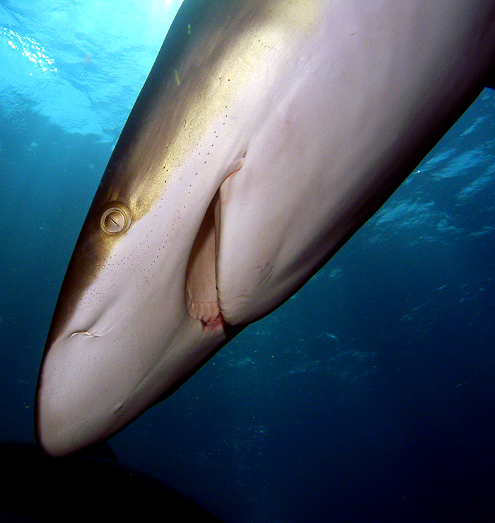 Close up to a shark